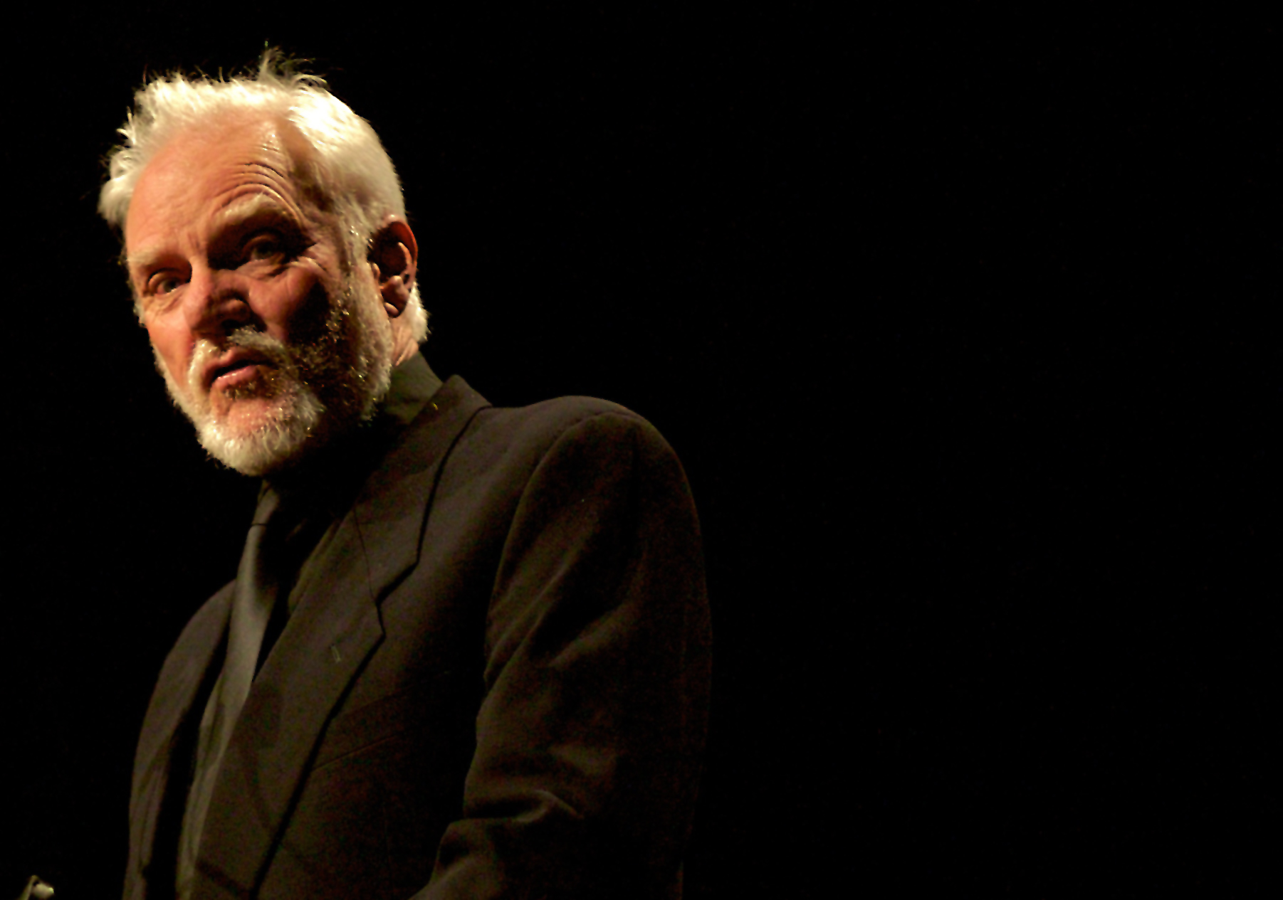 Malcolm McDowell accepts the career achievement award presented at the 12th annual Palm Beach International Film Festival awards gala, on April 21,2007 at the Grand Ball Room of the Boca Raton Resort and Club in Boca Raton, Fl